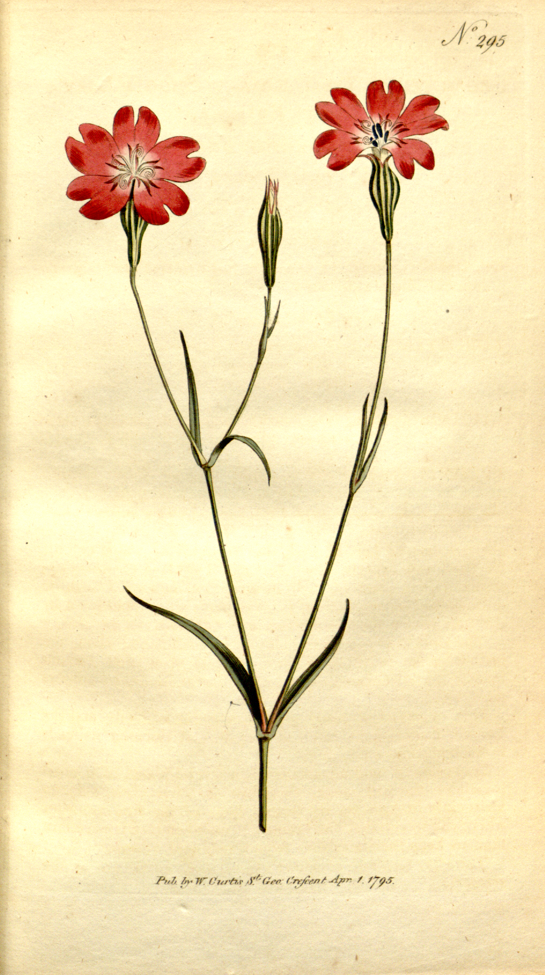 This is a plate of Eudianthe coeli-rosa (as Silene coeli-rosa) from The Botanical Magazine, Volume 9.